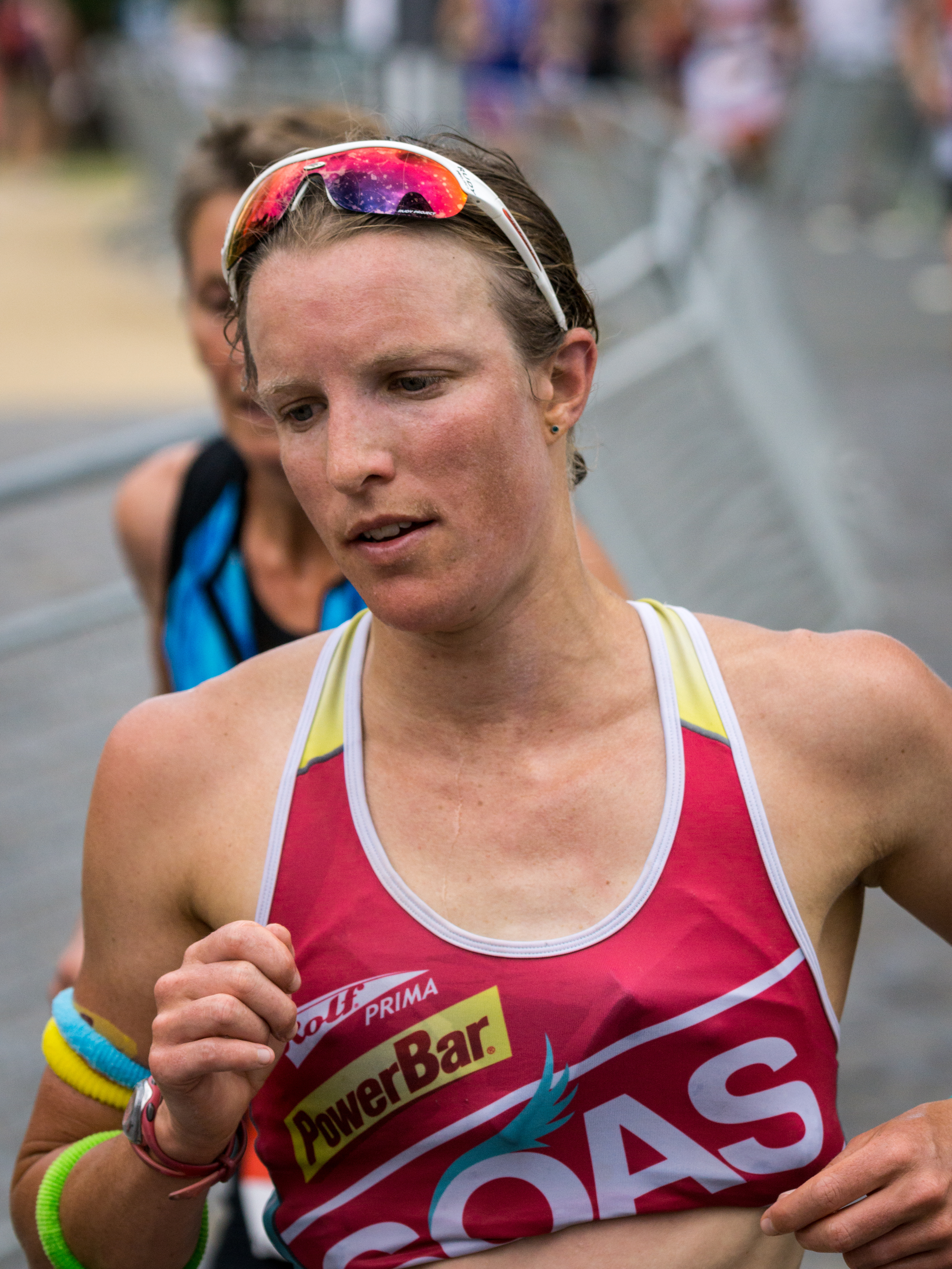 Gina Crawford at the 2014 Ironman European Championship in Frankfurt am Main.